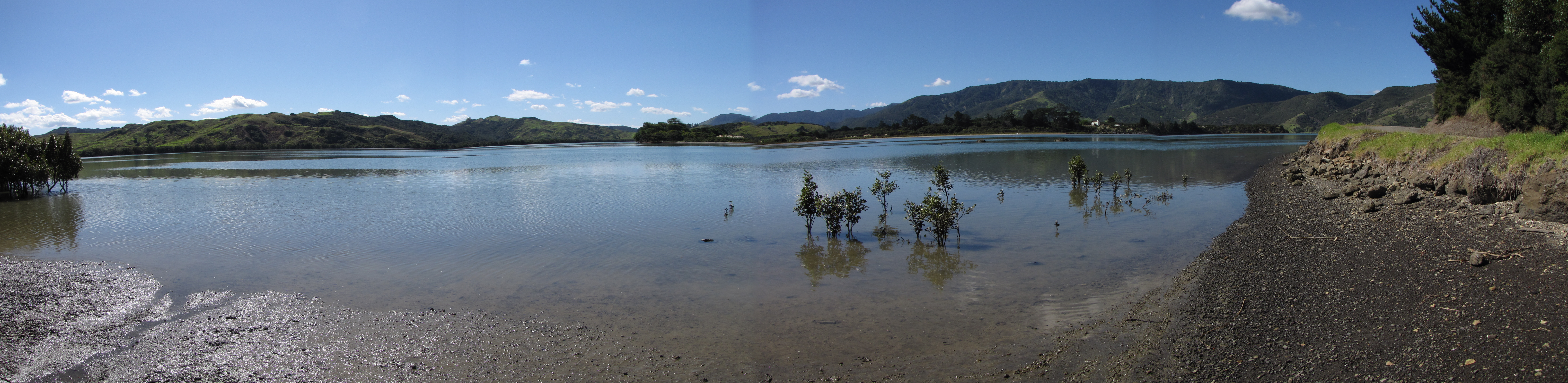 Whangape Harbour is a harbour on the west coast of Northland, New Zealand